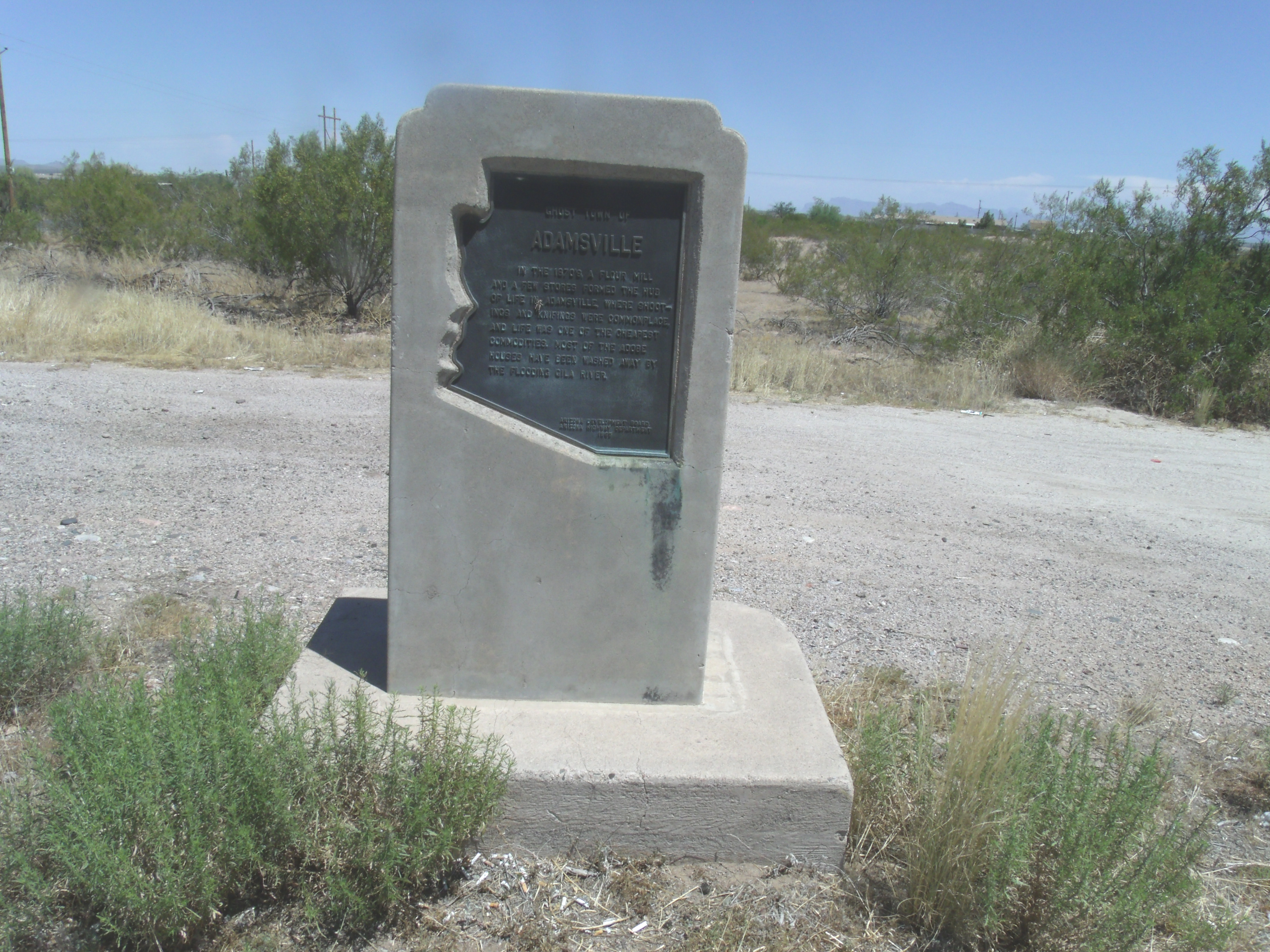 Adamsville Ghost Town Marker. Adamsville was a farming town founded in 1870 by Fred Adams. The town had stores, homes, a post office and a flour mill and water tanks. In 1900 the Gila River overflowed and wiped out most of the town. Those who survived the flood moved to the town of Florence. The inscription on the marker reads as follows: “In the 1870's, a flour mill and a few stores formed the hub of life in Adamsville, where shootings and knifings were commonplace, and life was one of the cheapest commodities. Most of the adobe houses have been washed away by the flooding Gila River”. .Listed in the National Register of Historic Places in 1970, reference #10000114. Plaque: Photo